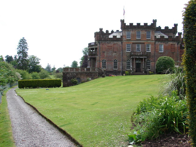 Raehills House – North Side Raehills (1782 & 1829-34) is unusual in having Egyptian revival and battlemented details. A colonnade runs above the terrace.